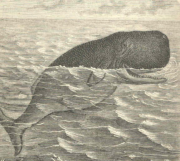 Cachalot Subject: Whales, Sperm whale Tag: Aquatic Mammals